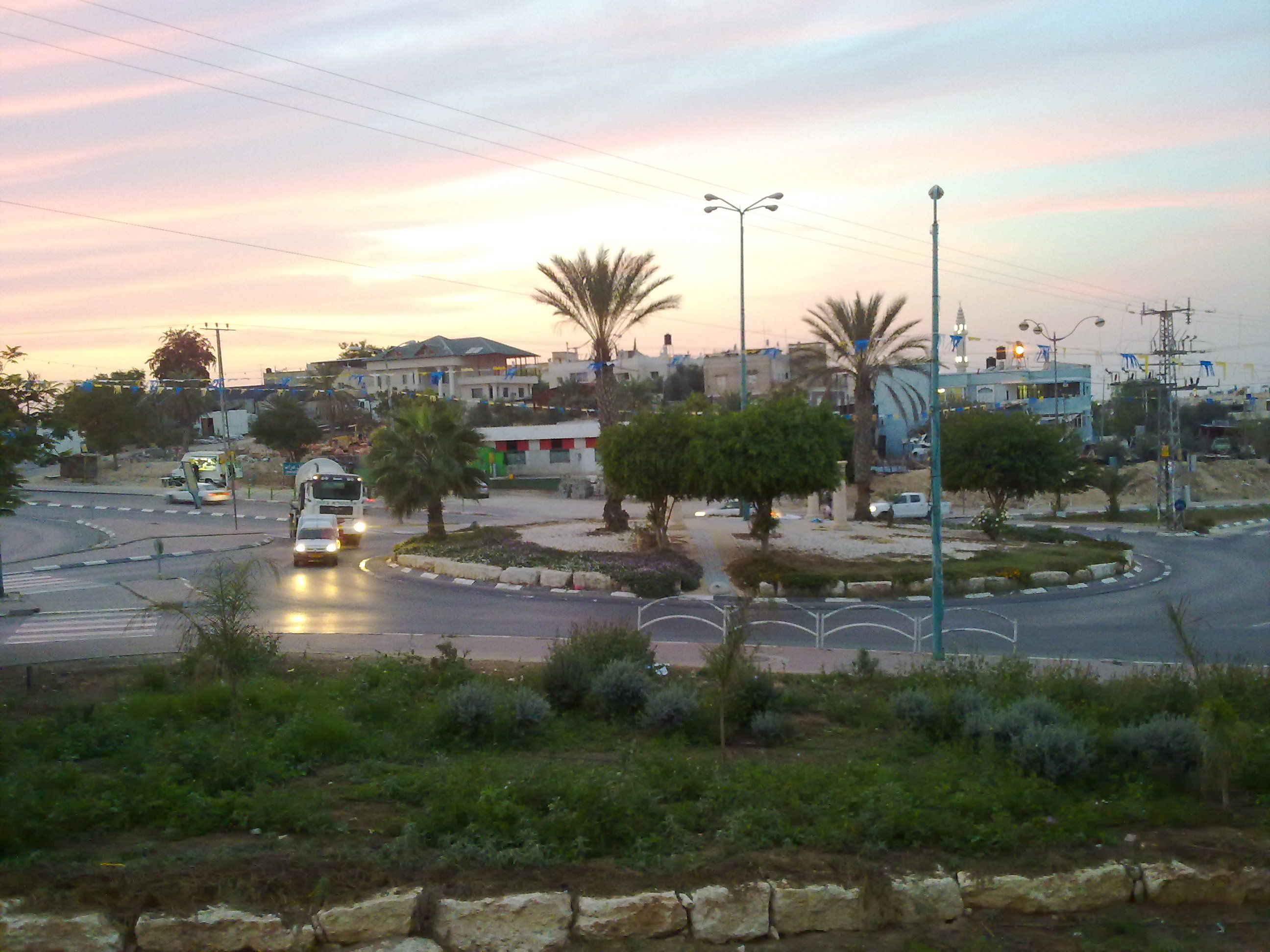 Settlements in Israel